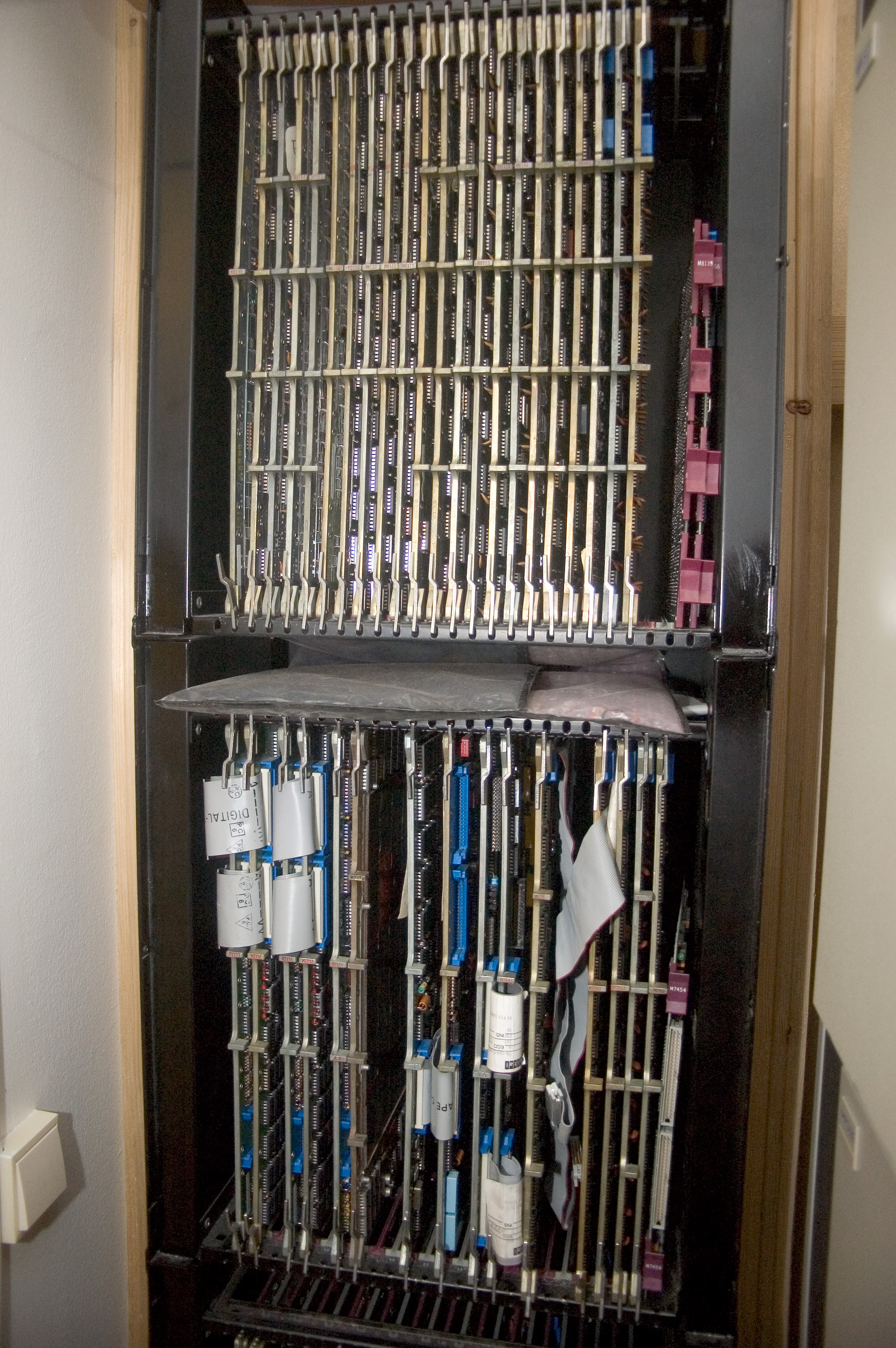 Circuit boards of a PDP-11 at Stacken.